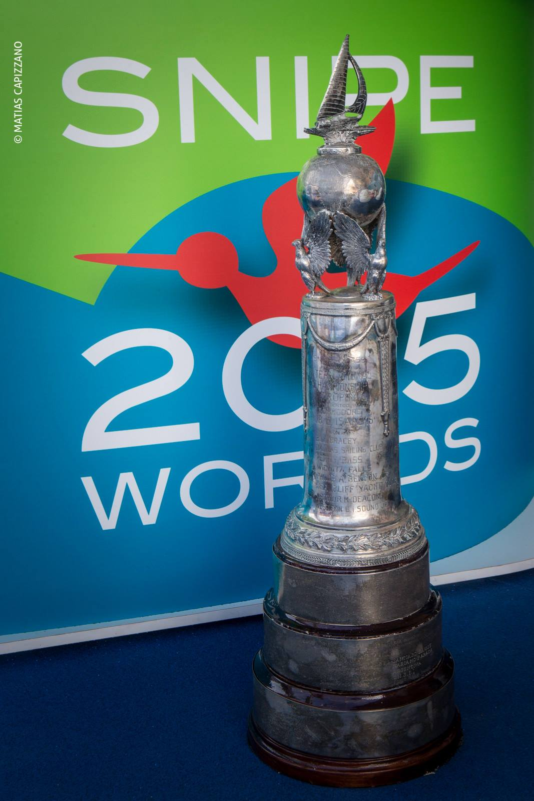 Commodore Hub E. Isaacks Trophy